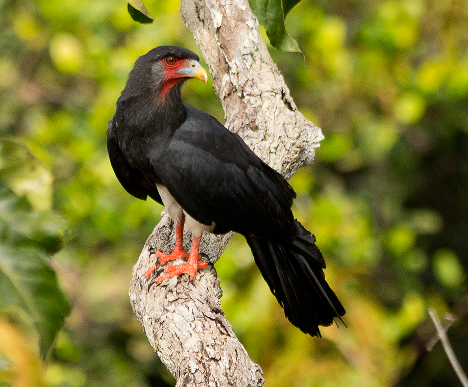 Red-throated Caracara (Ibycter americanus) perched on a branch near the Pararé Camp of the Nouragues Reserve in Central French Guiana, April 2011; note the bird's bare face and throat. Cropped from (also available as File:Ibycter americanus - journal.pone.0084114.g001.png).